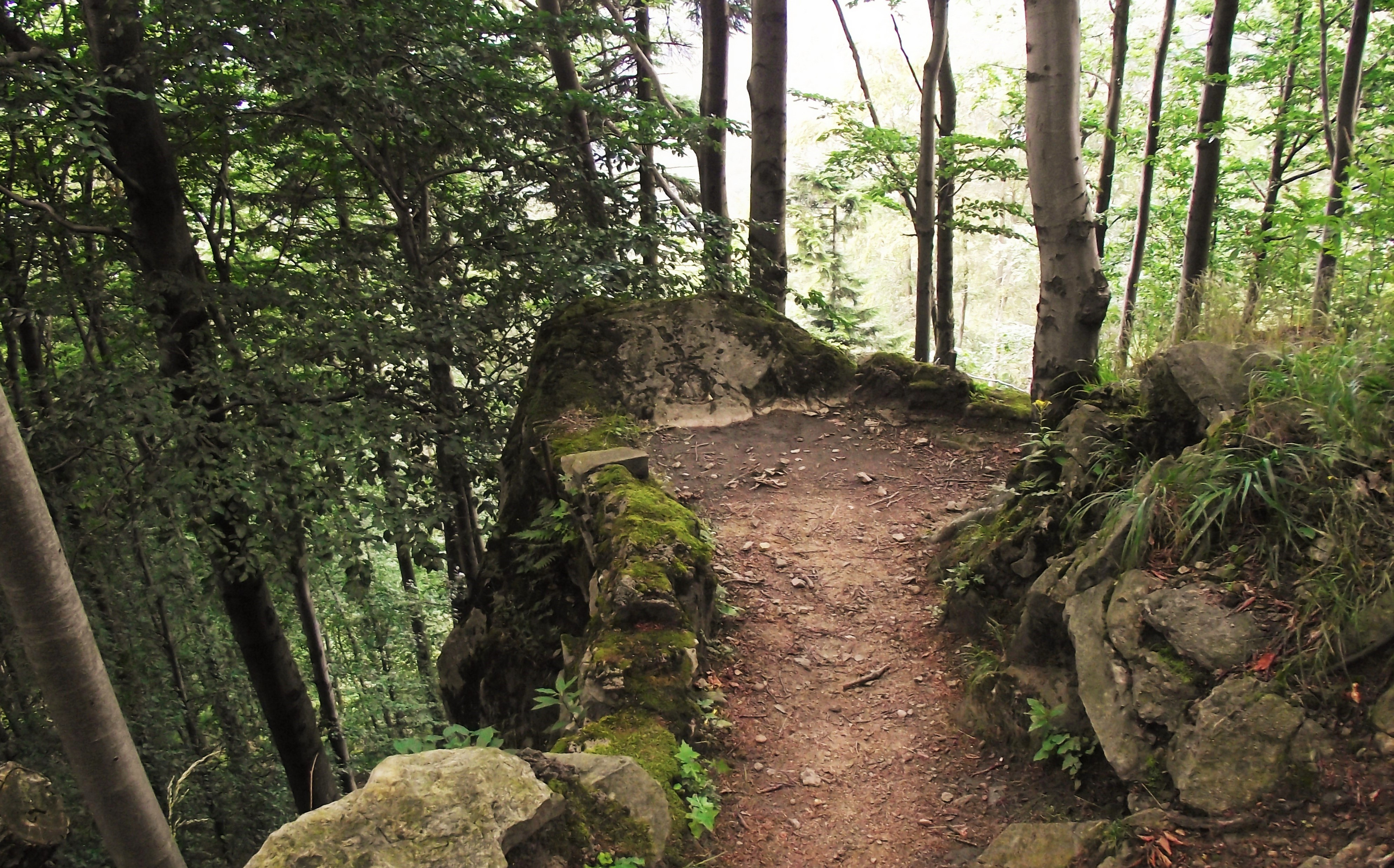 "The forest church" - a secret Lutheran service place used in the time of the Counter-Reformation at the place called Zakamiyń ("Behind the Stone") in Nýdek on the west side of Czantoria Mount. On the rock the plaque commemorating George Tranoscius.